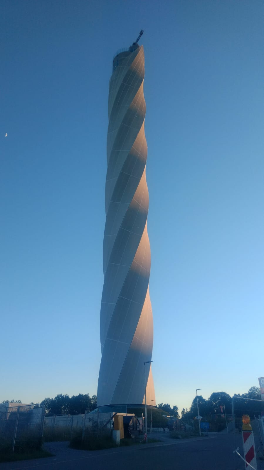 Thyssen-Tower in Rottweil, Germany